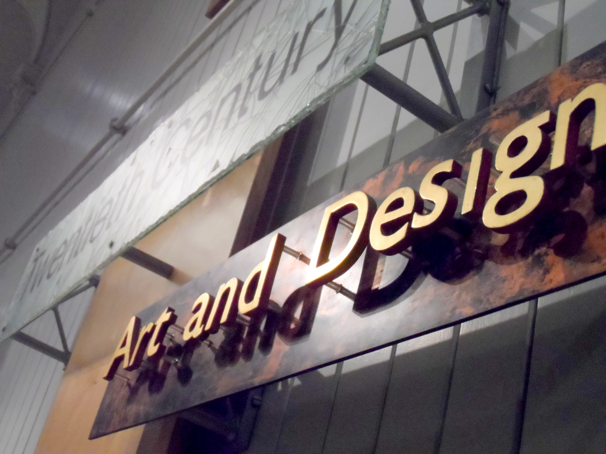 Exhibition signage, "Twentieth Century Art and Design", Brighton Museum and Art Gallery